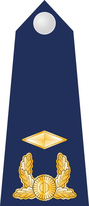 Rank insignia for South Korean Warrant Officer